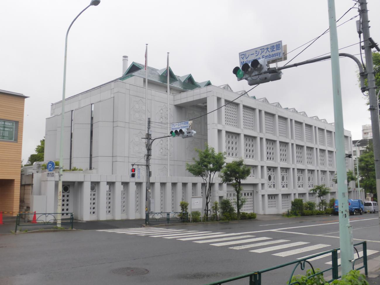 Embassy of Malaysia in Tokyo, Japan